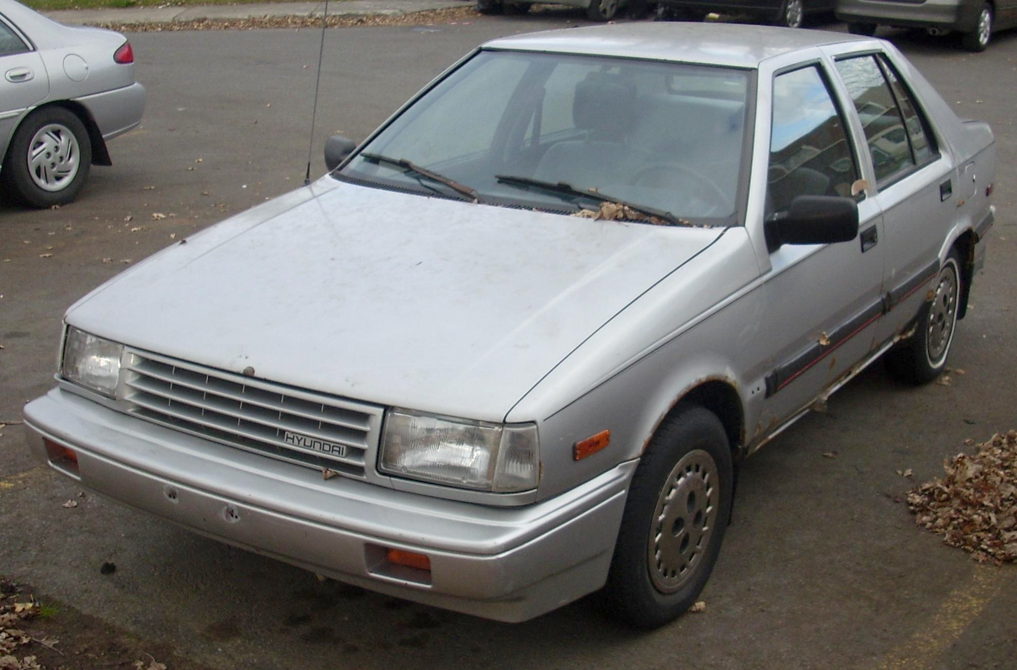 1988-1989 Hyundai Excel photographed in Montreal, Quebec, Canada.